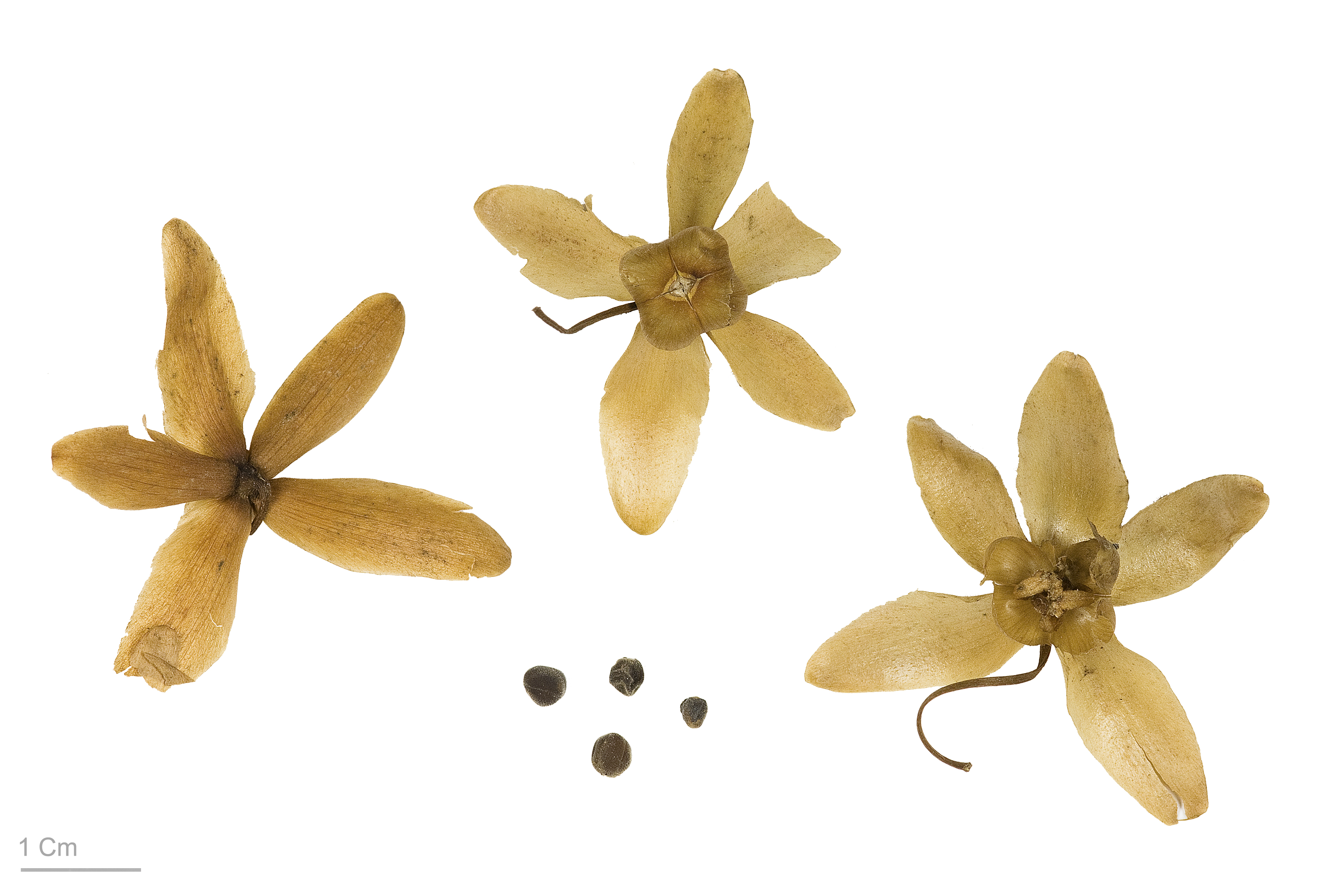 Hairy Merremia, Hairy Woodrose, fruits and seeds